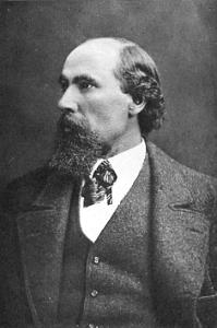 James J. Hill at about 35 years of age (~1875). Cropped, sharpened, and grayscaled version of Image:James J. Hill at 35 full.jpg. Original image obtained from